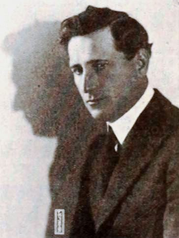 Actor Lester Cuneo, on page 77 or the October 16, 1920 Exhibitors Herald.